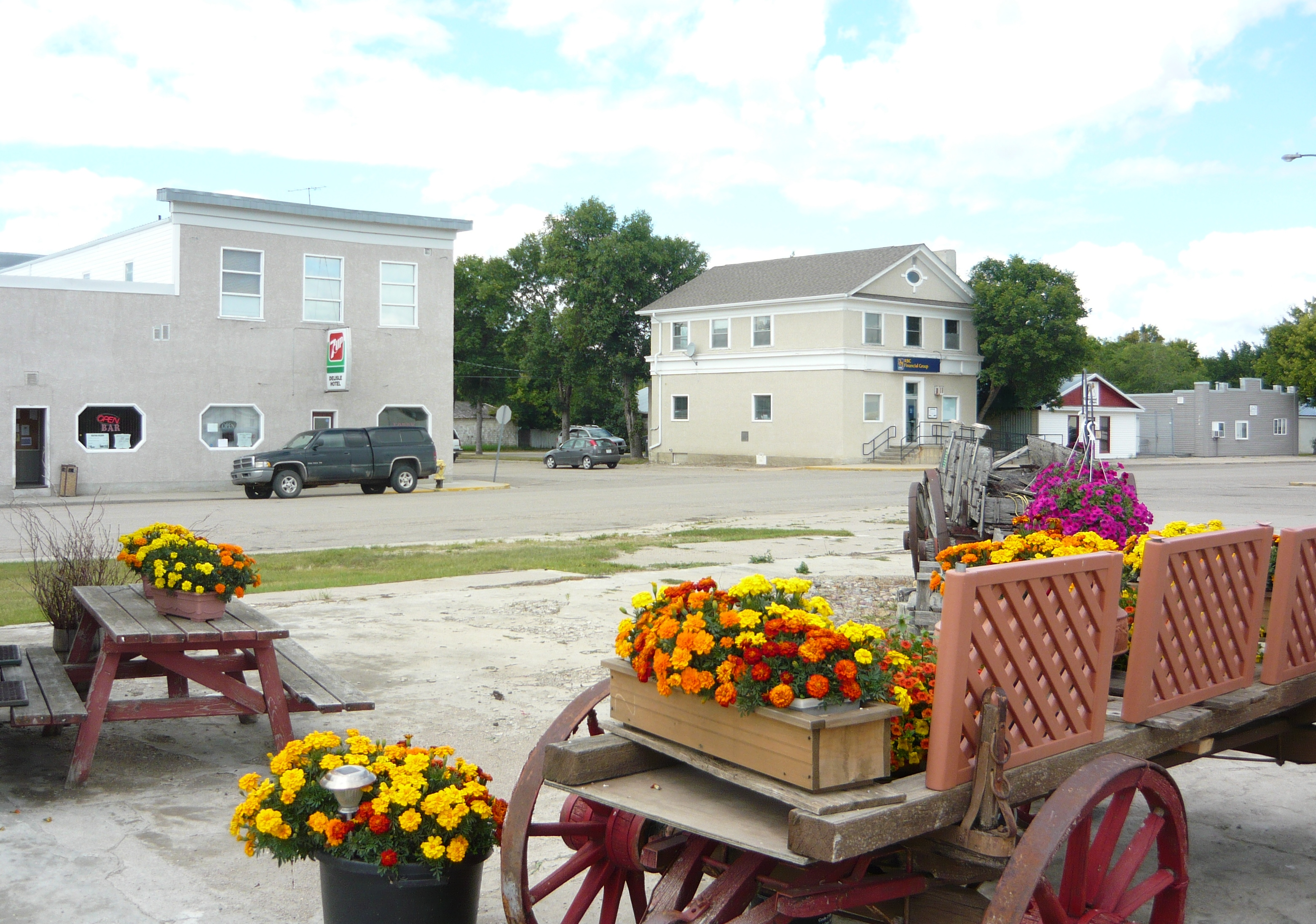 Business district of Delisle, Saskatchewan, Canada. Intersection of First Street West and Second Avenue.